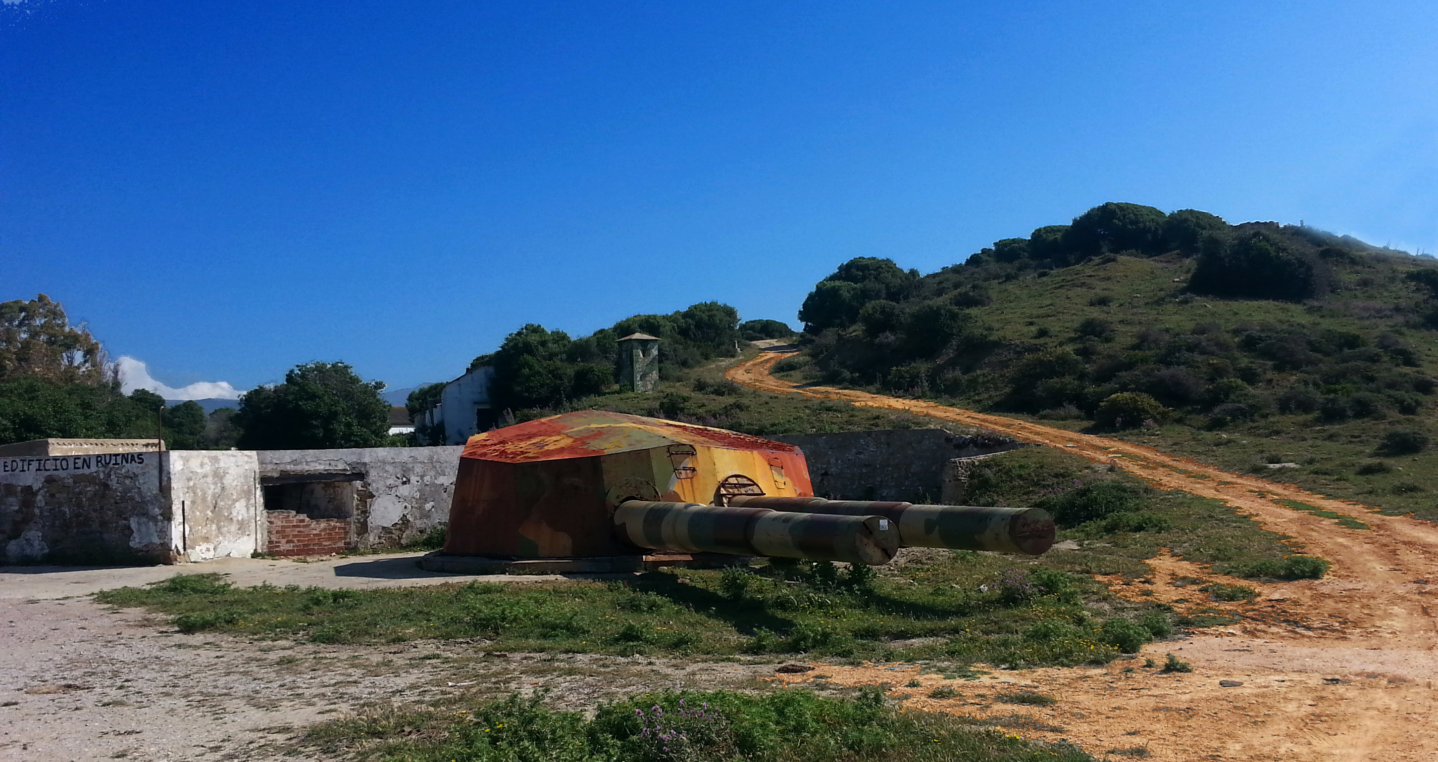 El vigia Vickers 305/50 Battery near Tarifa. Bow battery from Battleship Jaime I